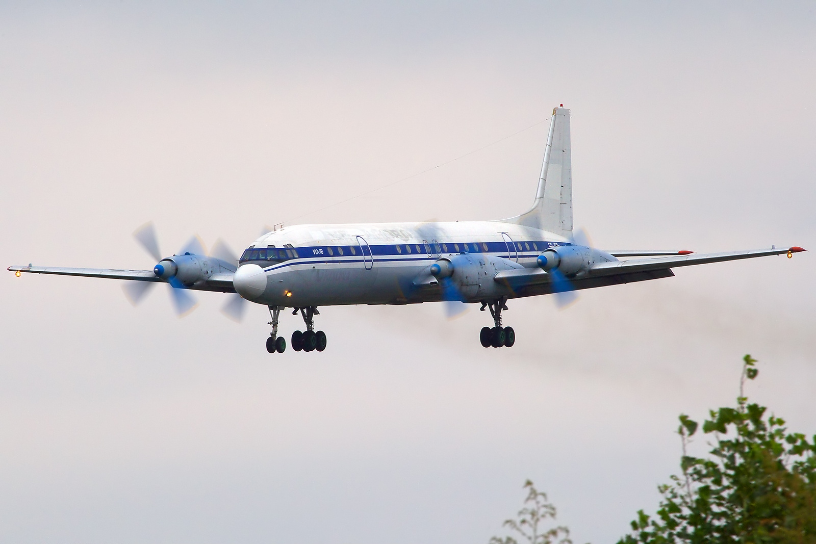 The classic airliner is arriving from Chisinau full of spotters aboard